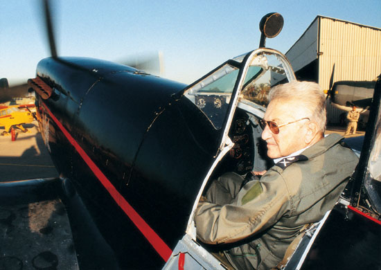 Depicted person: Ezer Weizman – Israeli politician, 7th president of Israel (1924-2005)